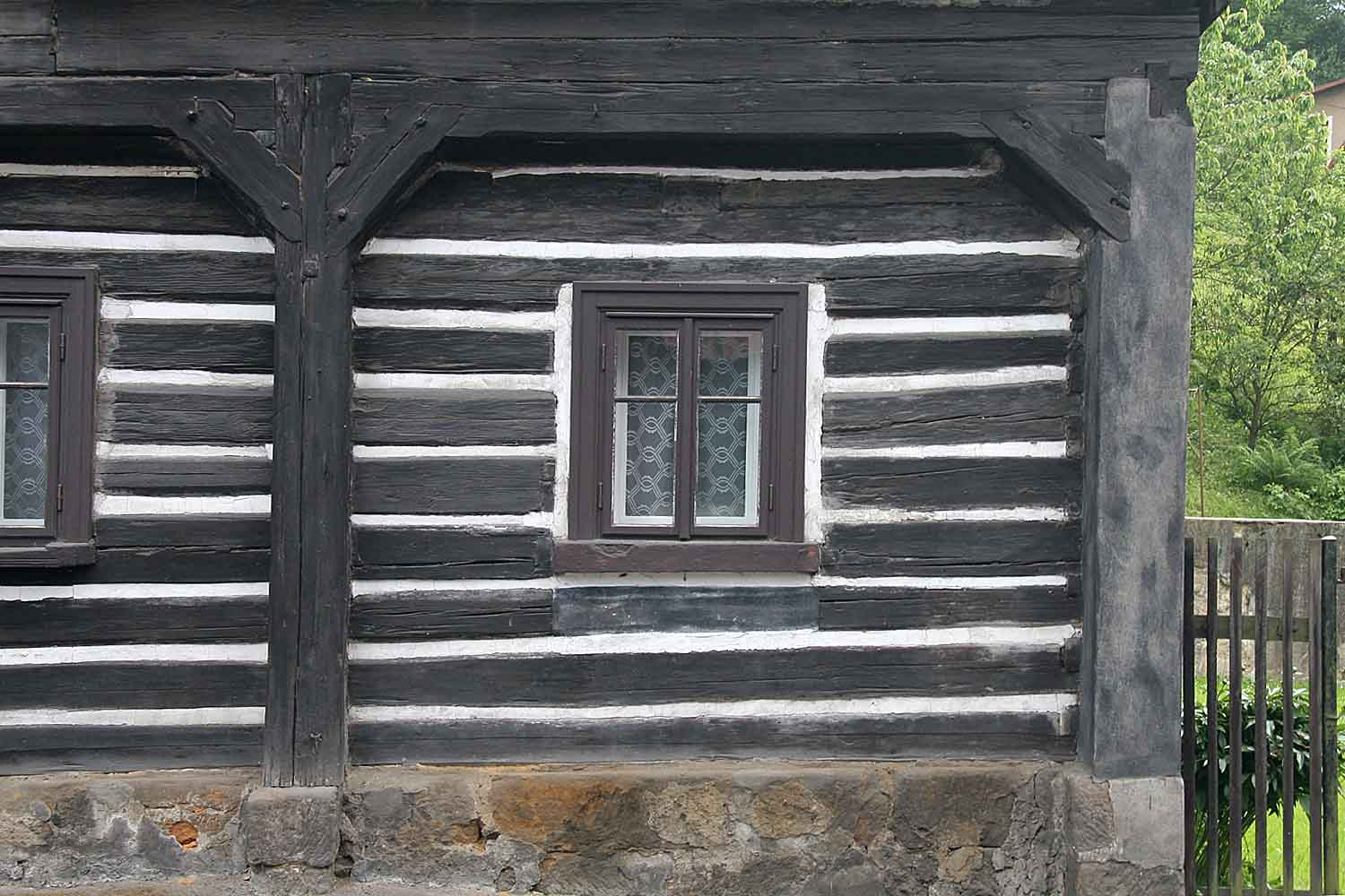 Dlasek's farm in Dolánky near Turnov, Czech Republic.